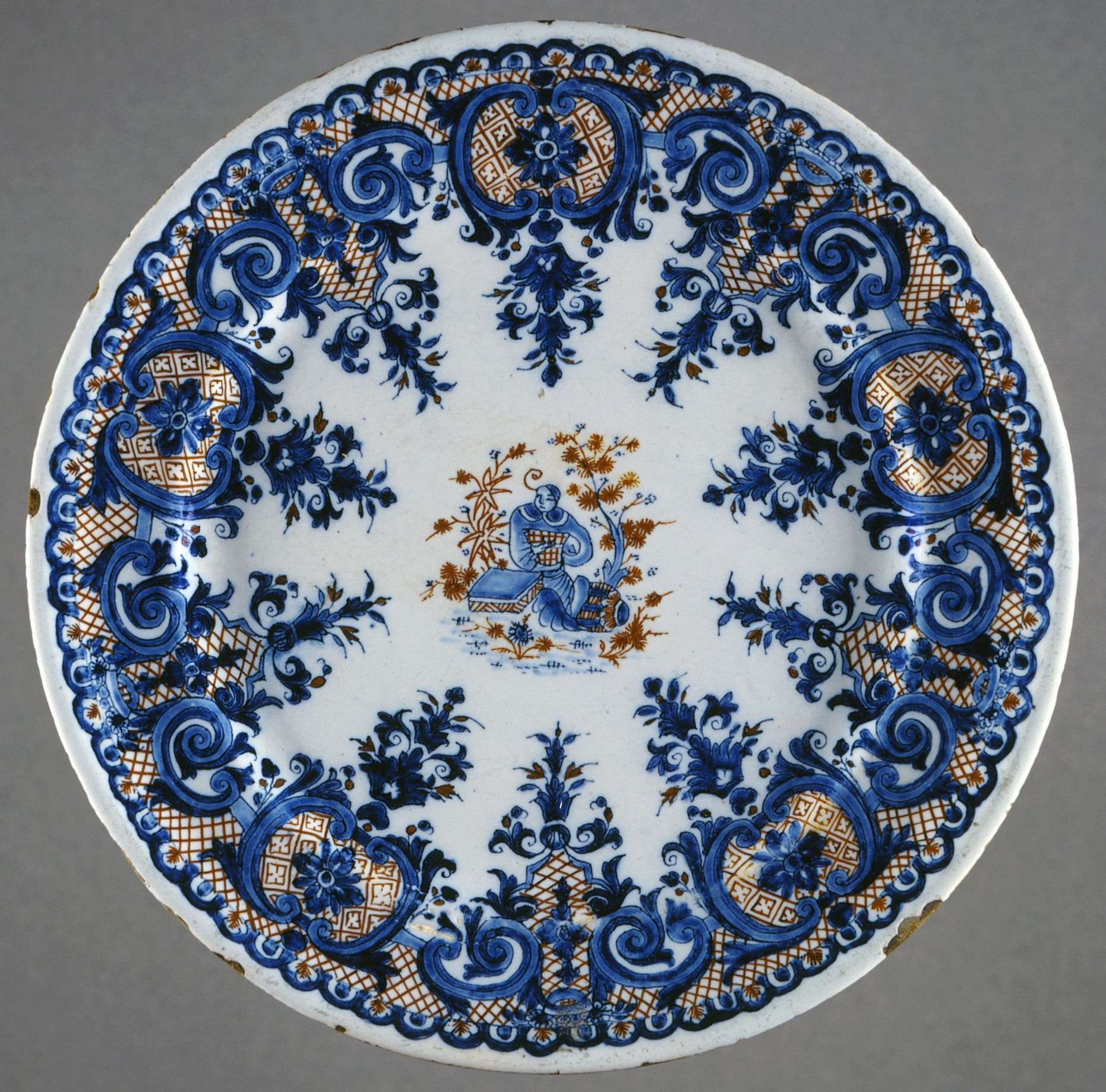 France, Rouen, circa 1710 Furnishings; Serviceware Earthenware with tin glaze and enamel (grand feu faience) Gift of MaryLou and George Boone in honor of the museum's twenty-fifth anniversary (M.2010.51.3) Decorative Arts and Design Currently on public view: Hammer Building, floor 3